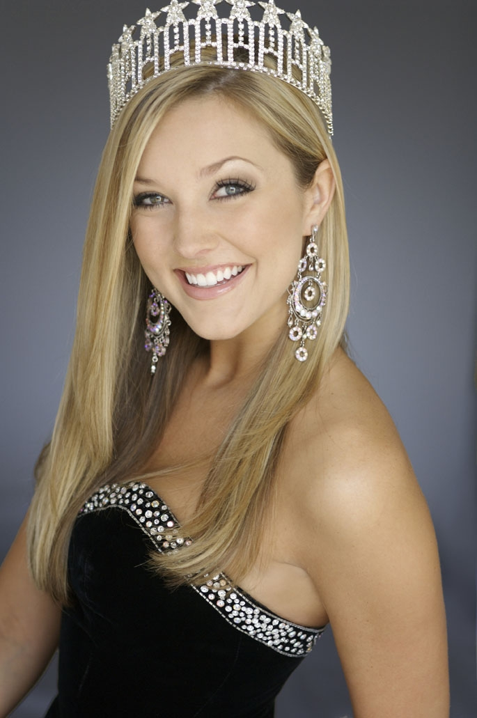 Erin O'Kelley, Miss North Carolina USA for 2007